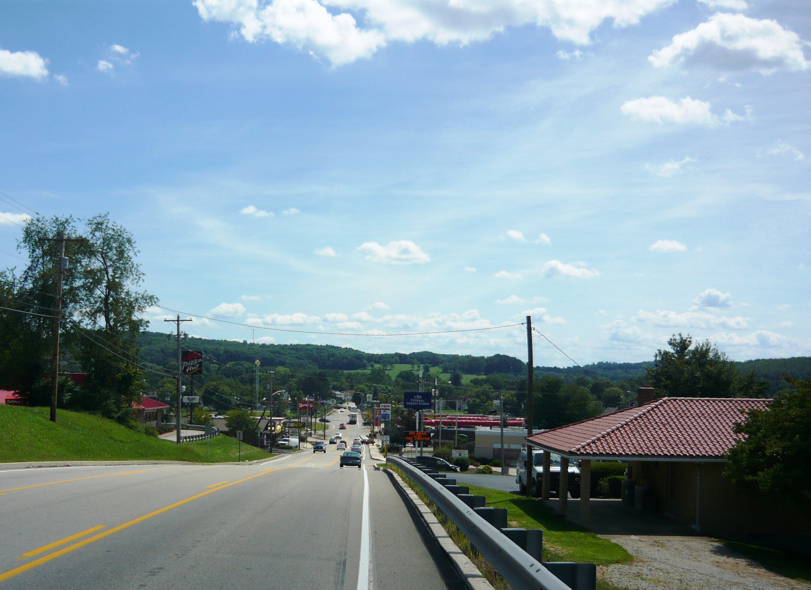 Looking southward, overlooking the business district, on North Center Avenue from the Borough Building, New Stanton, Westmoreland County, Pennsylvania.